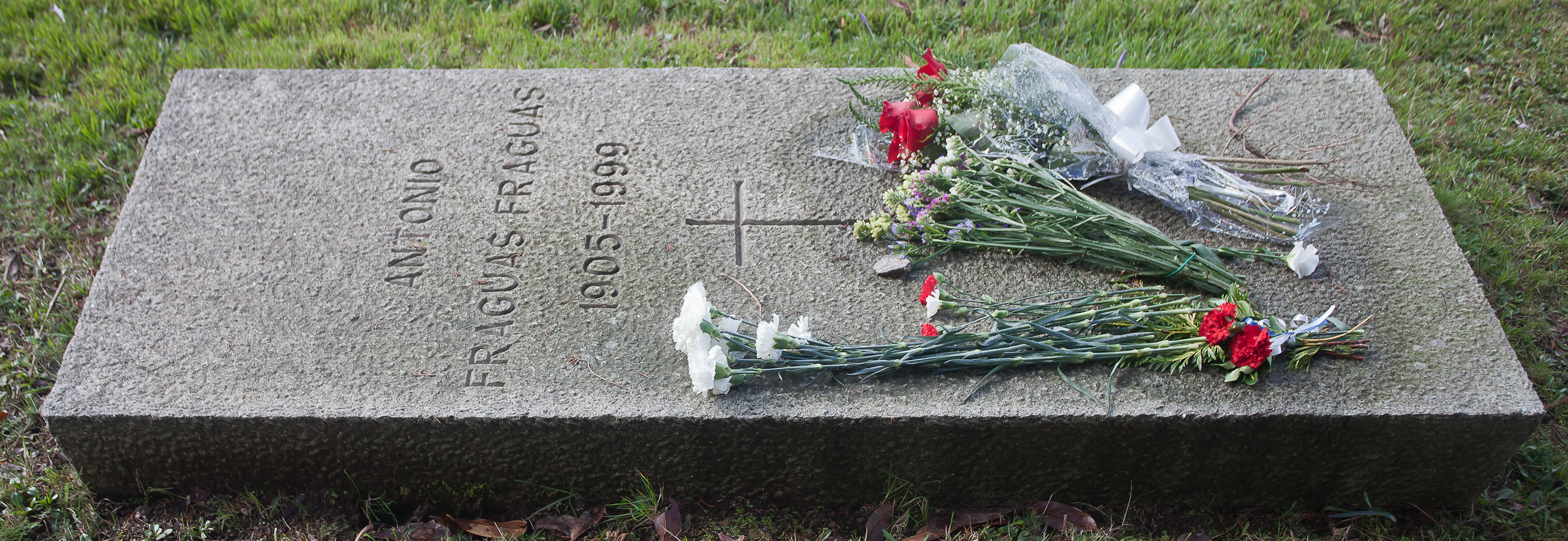 Grave of Antonio Fraguas, Boisaca, Santiago de Compostela, Galicia (Spain)